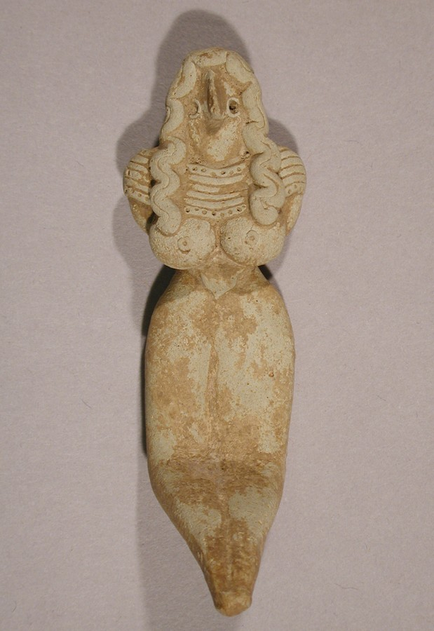 Seated Mother Goddess ,3000–2500 B.C. Pakistan (Baluchistan) Mehrgarh style